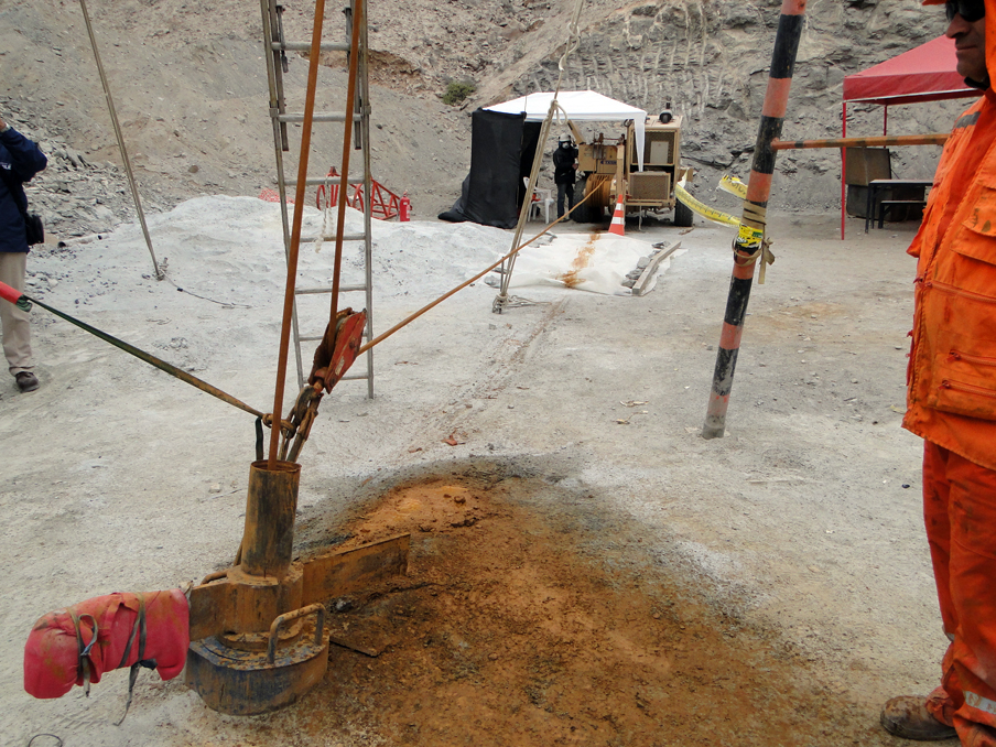 The pipe used at Copiapó mine to deliver supplies to the trapped miners.